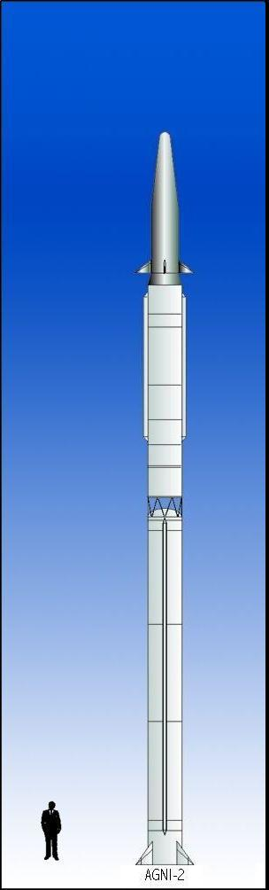 Agni-II MRBM (Medium range ballistic missiles) and IRBM (Intermediate range ballistic missiles) Comparison with Man.